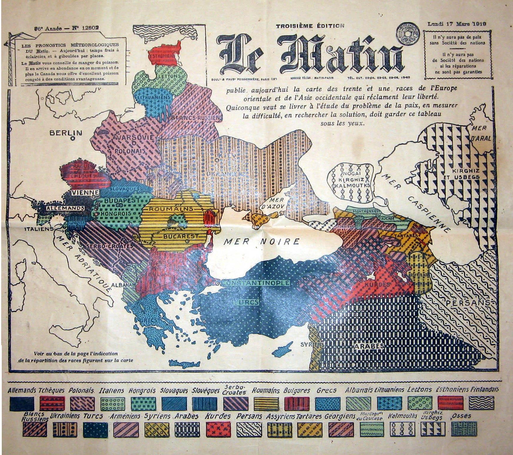 Ethnographic map of Eastern Europe in beggining of 1919